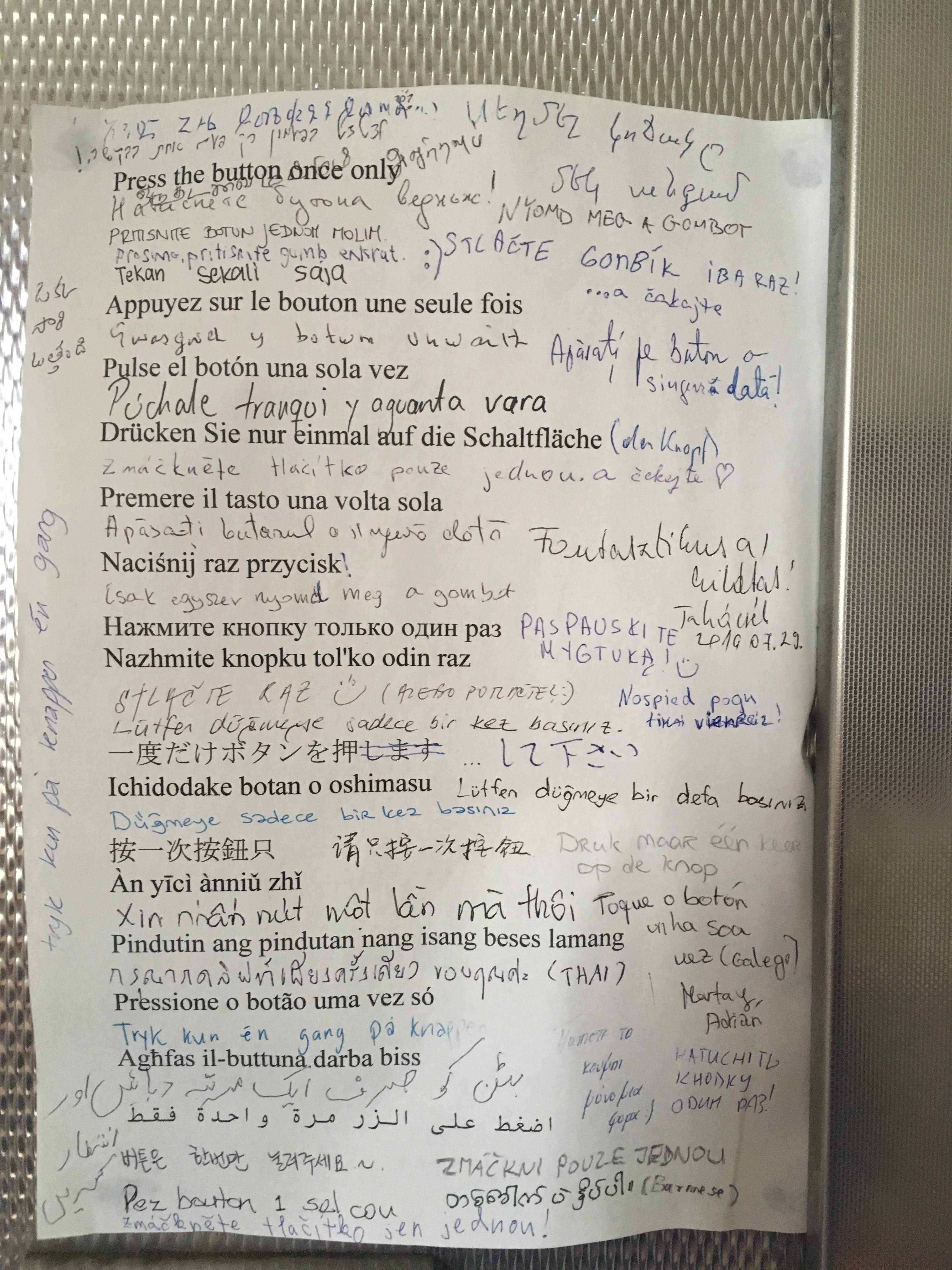 A sign in many different languages at Westminster Cathedral.